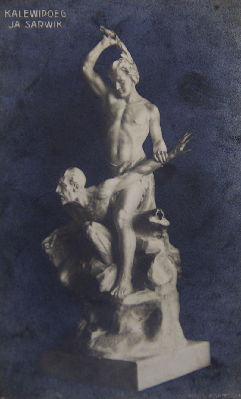 1914 postcard with a photo of Amandus Adamson's sculpture Kalevipoeg ja sarvik ("Kalevipoeg and the Devil").